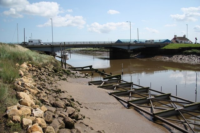 Fosdyke Bridge The River Welland at Fosdyke Bridge and boat cradle in the foreground